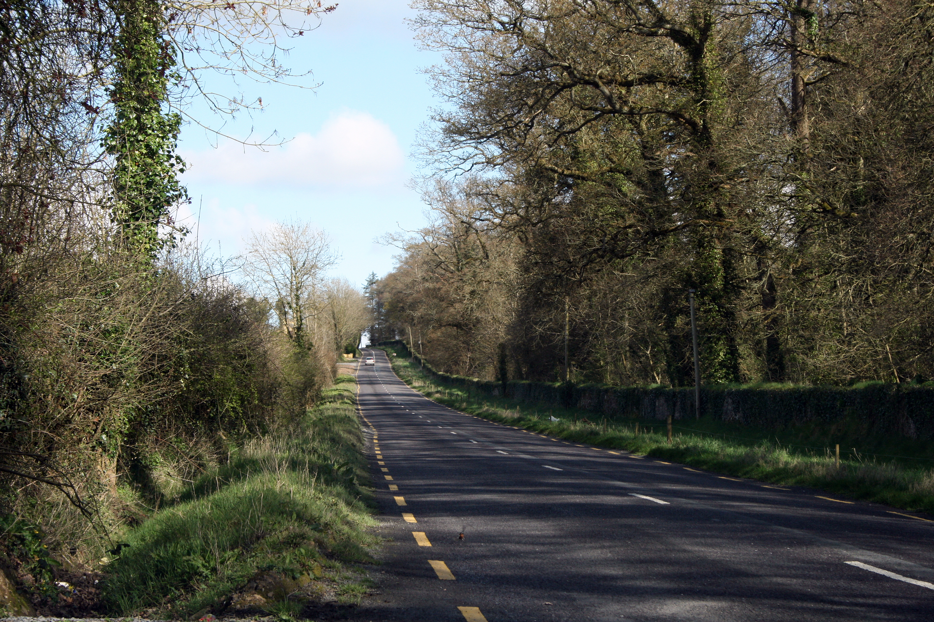 The R522 between Buttevant and Doneraile in North Cork